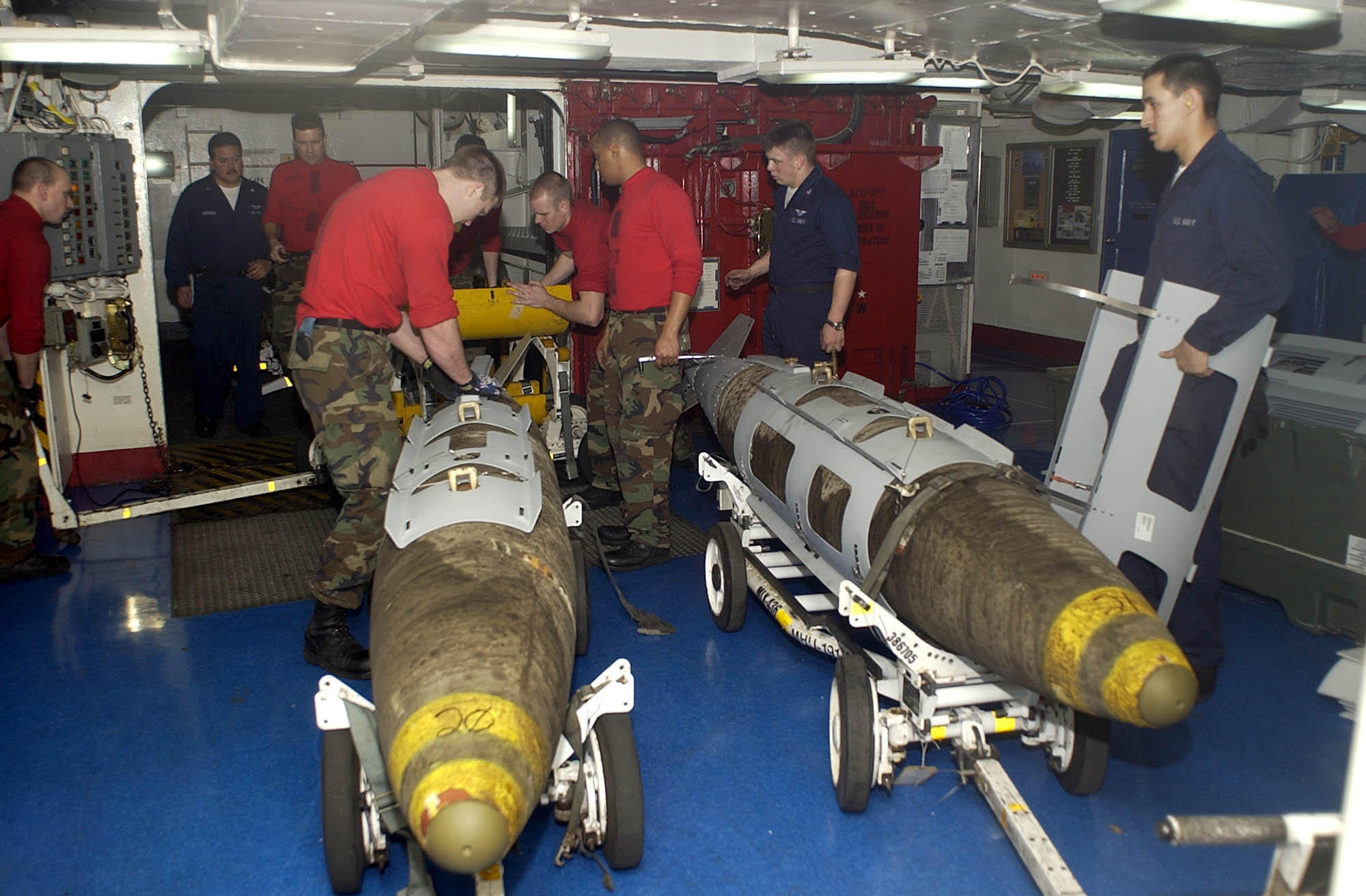 The Persian Gulf (Mar. 19, 2003) -- Ordnance handlers assemble Joint Direct Attack Munition (JDAM) bombs in the forward mess decks before putting them on elevators headed for aircraft on the flight deck aboard USS Constellation (CV 64). JDAM's are guidance kits that convert existing unguided bombs into precision-guided "smart" munitions. The tail section contains an inertial navigational system (INS) and a global positioning system (GPS). JDAM improves the accuracy of unguided bombs in any weather condition. It is launched from any fighter or fighter-attack aircraft in the Navy's inventory. The Constellation is deployed in support of Operation Enduring Freedom. U.S. Navy photo by Photographer's Mate Second Class Felix Garza Jr. (RELEASED)